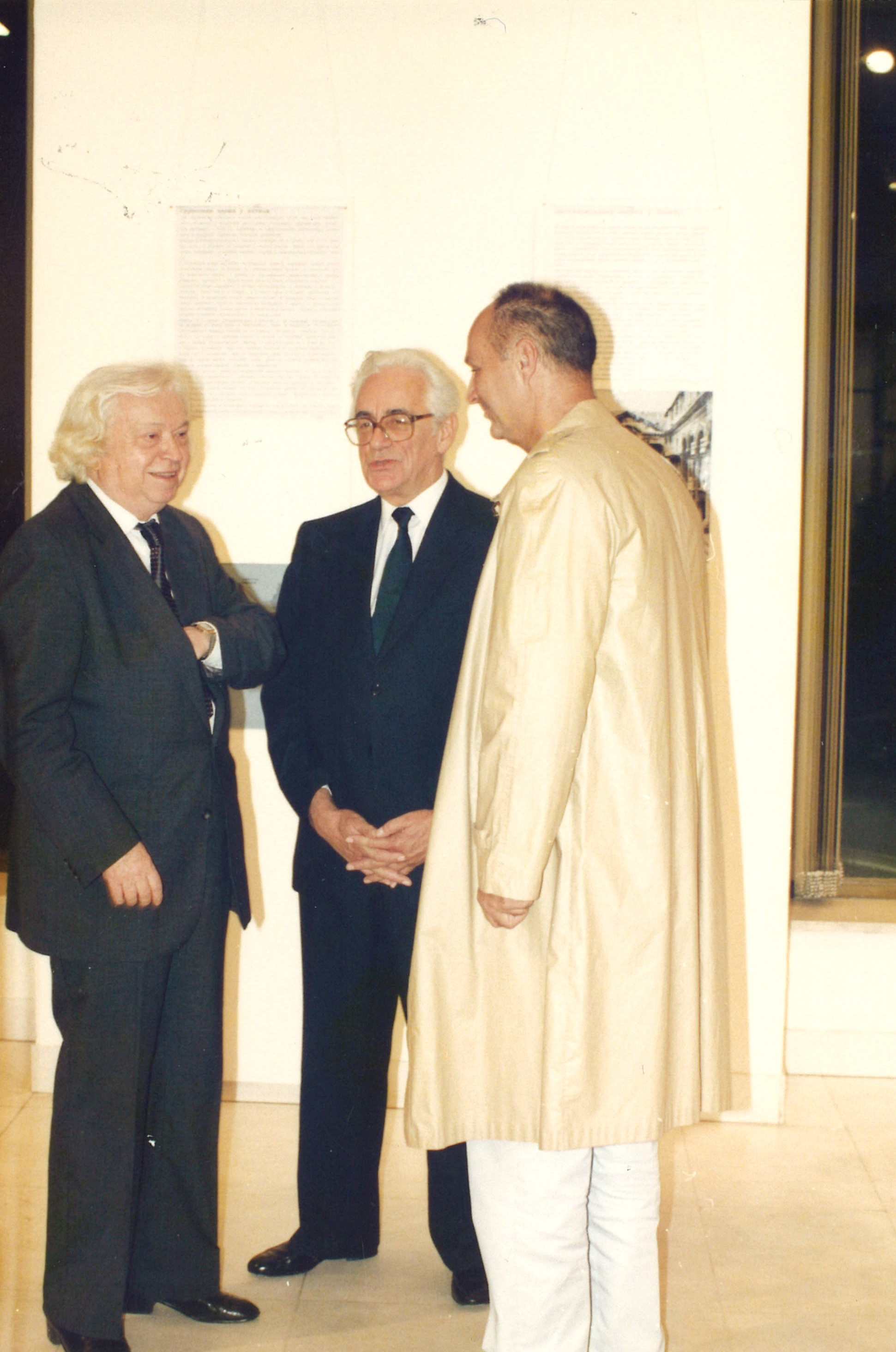 Aleksandar Despić and Dušan Kanazir